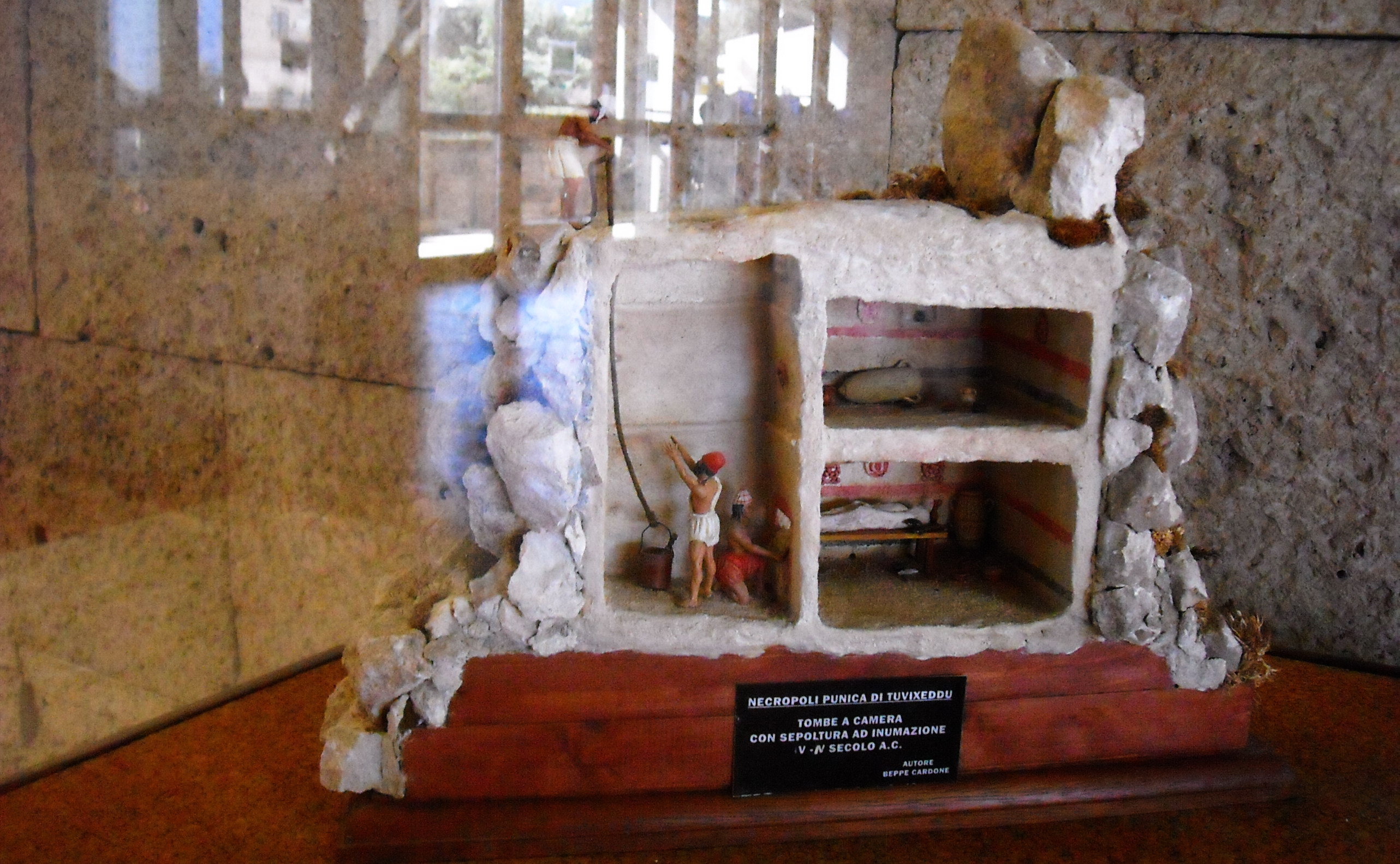 Reconstruction of a punic tomb of the necropolis of Tuvixeddu (Cagliari, Sardinia, Italy)